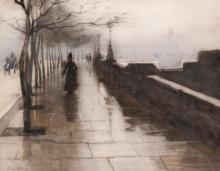 Quai in London along the Thames